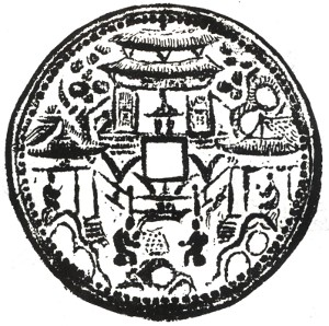 An illustration of an open-work charm with a pavilion or building design that features musicians, artists, longevity stones, and bamboo.